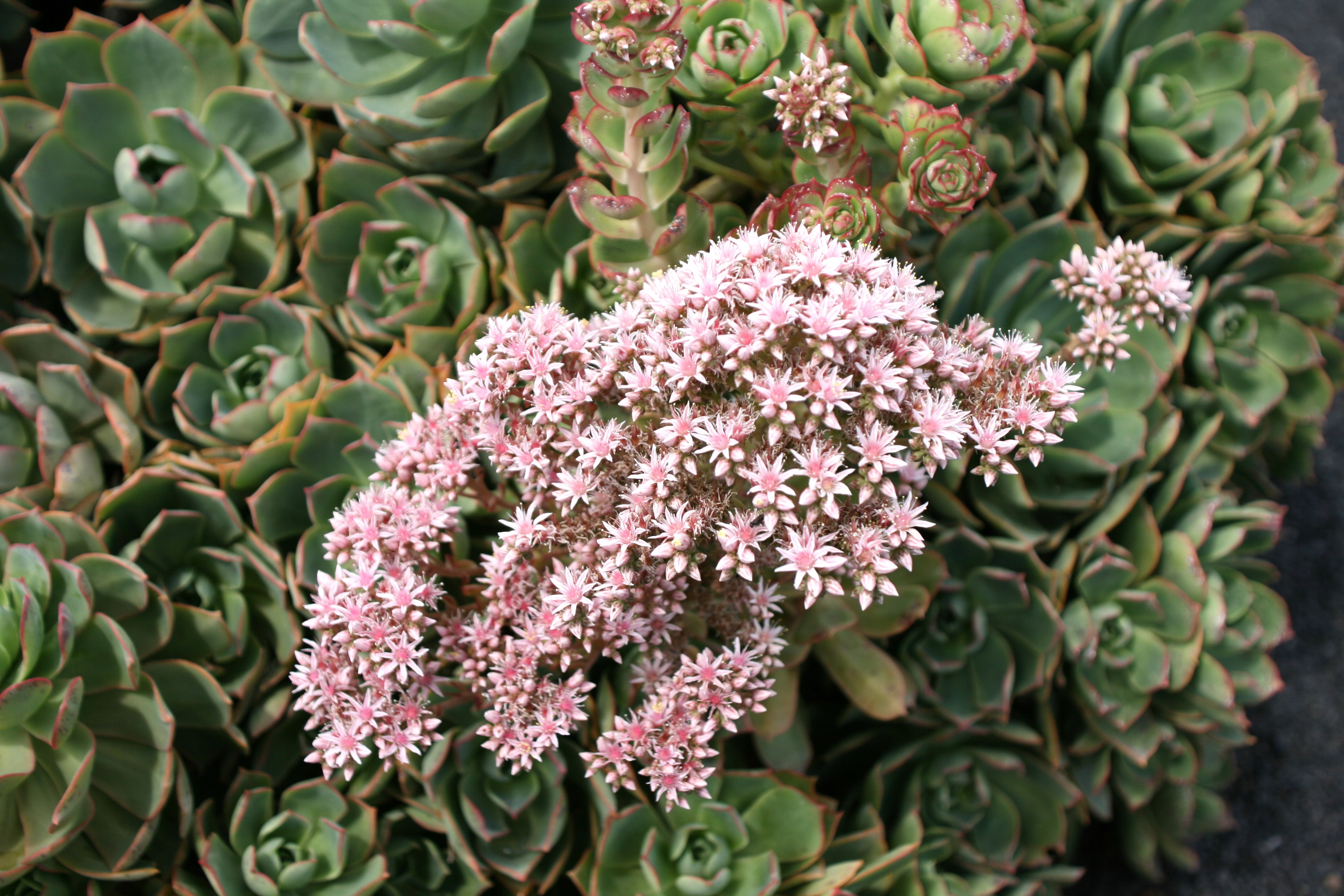 In lapilli cultivated Aeonium lancerottense close to the roundabout of LZ-20 and LZ-30 in San Bartolomé, Lanzarote, Canary Islands. These plants are much bigger than the natural growing ones close-by.